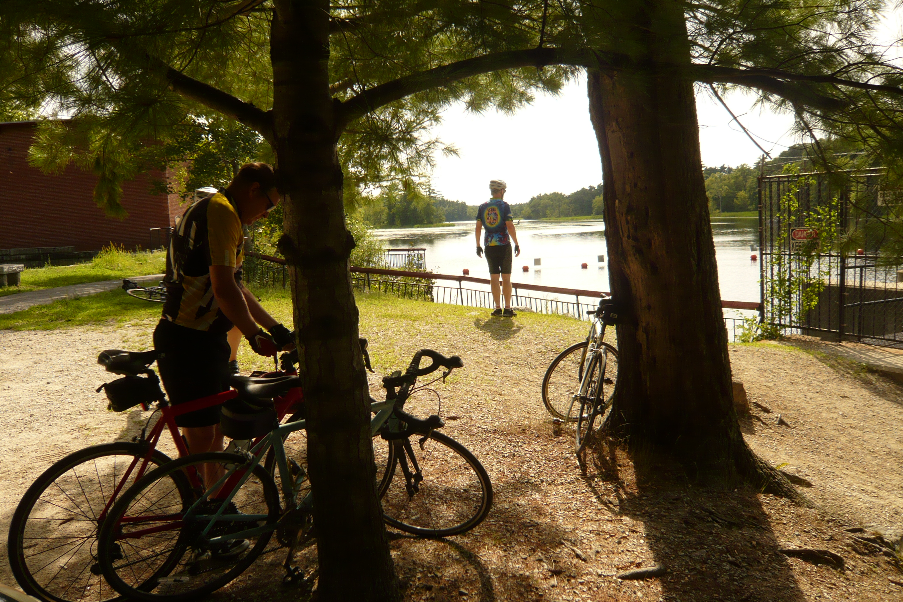 Cyclists take a break at the 1886 Mine Falls Gatehouse in Mine Falls Park, Nashua New Hampshire, part of the Nashua Manufacturing Company Historic District